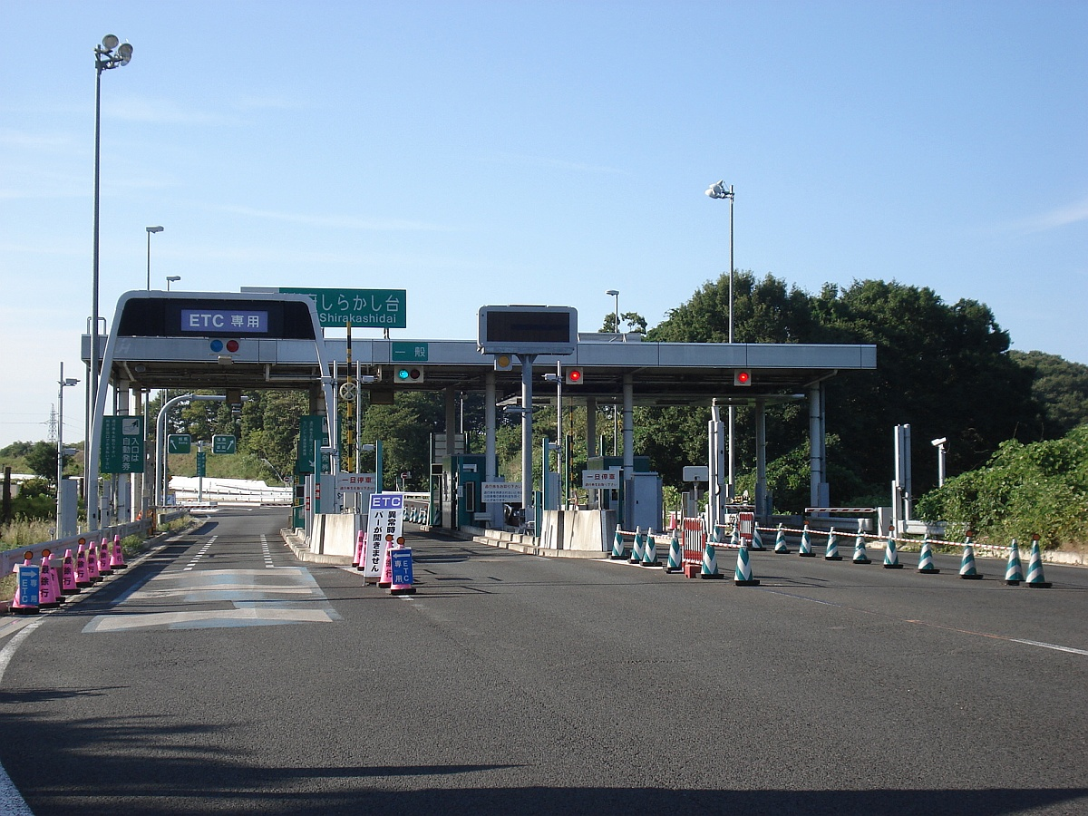 This Interchange, Rifu-Shirakashidai Interchange, is on Sendai Hokubu Road, in Rifu town, Miyagi Prefecture, Japan.